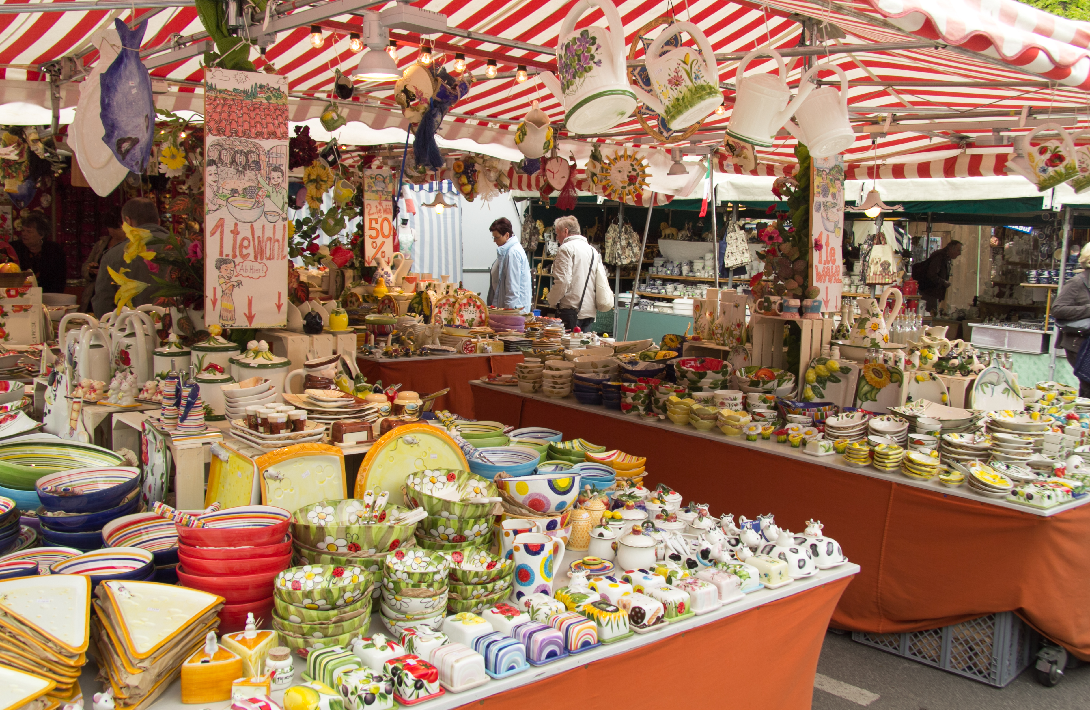 Dishes at a market stand at Auer Dult in May 2013.